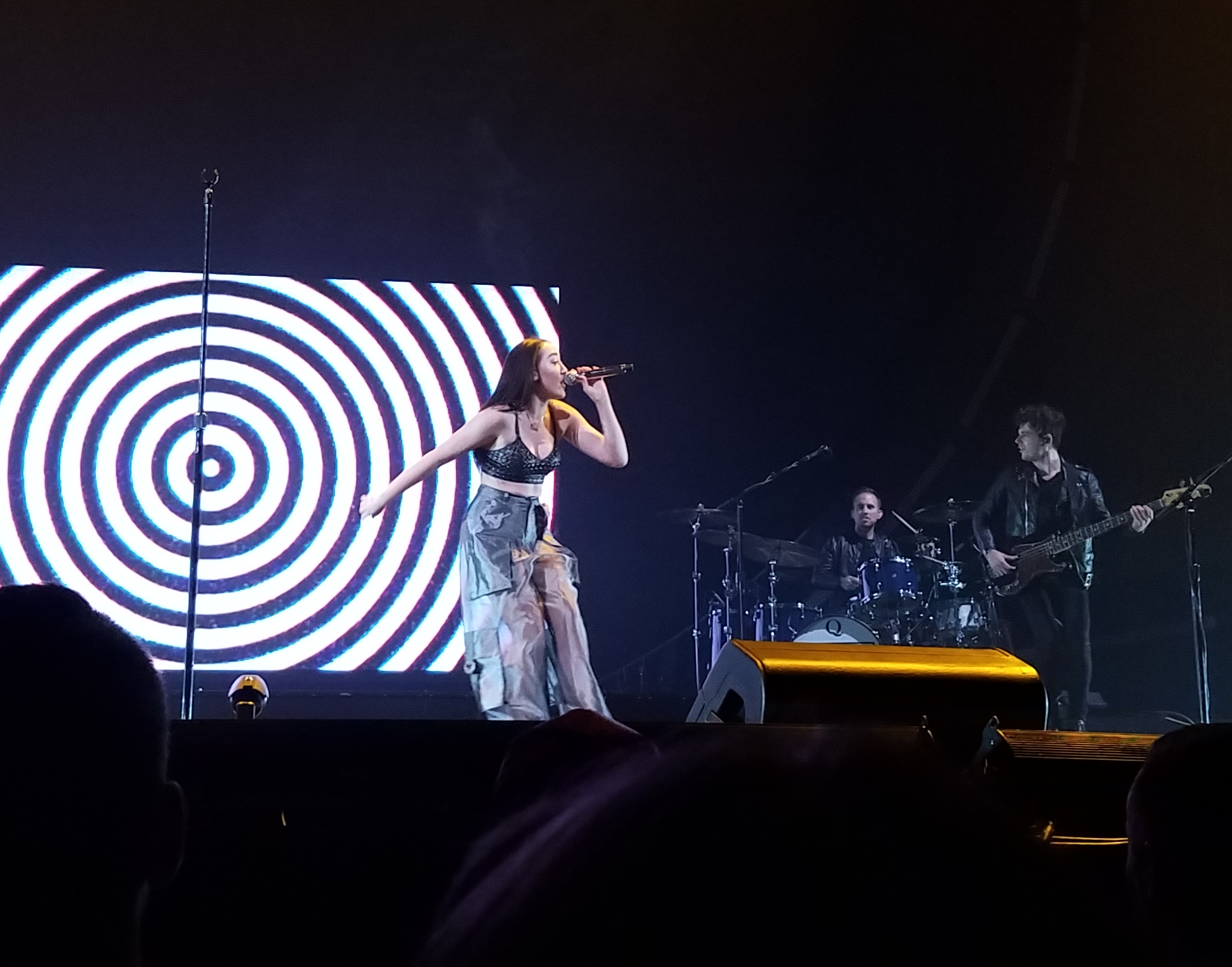 View from near stage of Noah Cyrus performing a song from her NC-17 album while opening Katy Perry's Witness: The Tour in St. Louis, MO USA.